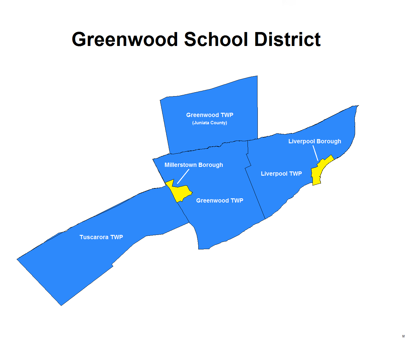 A map of the Greenwood School District showing the boundaries of the six municipalities the district encompasses.